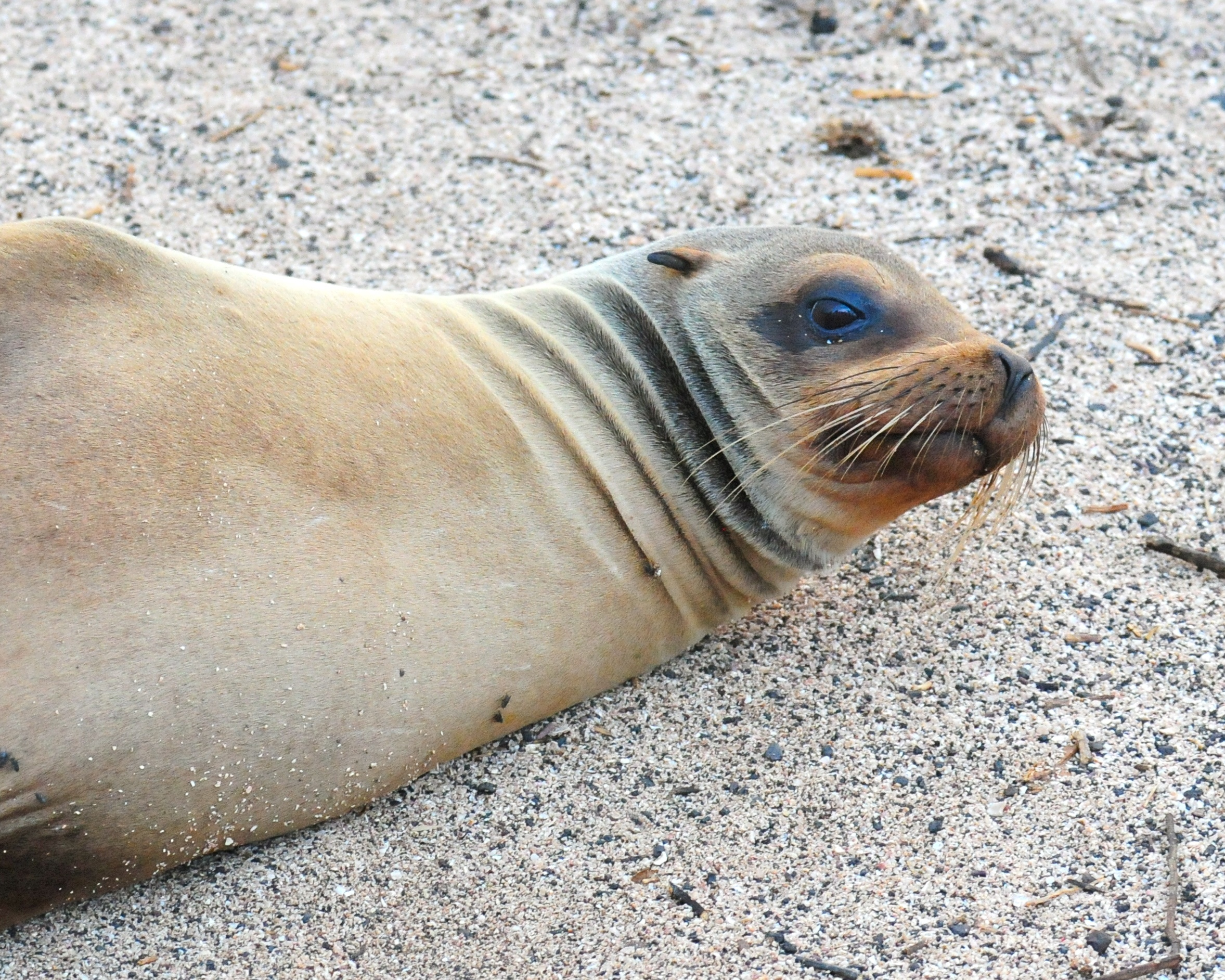 Zalophus wollebaeki North Seymour Island